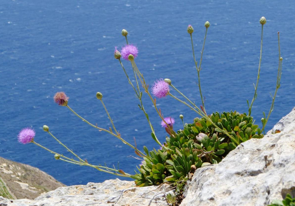 since 1971, this flower has been recognized by Malta and is the pride of the people of this country.